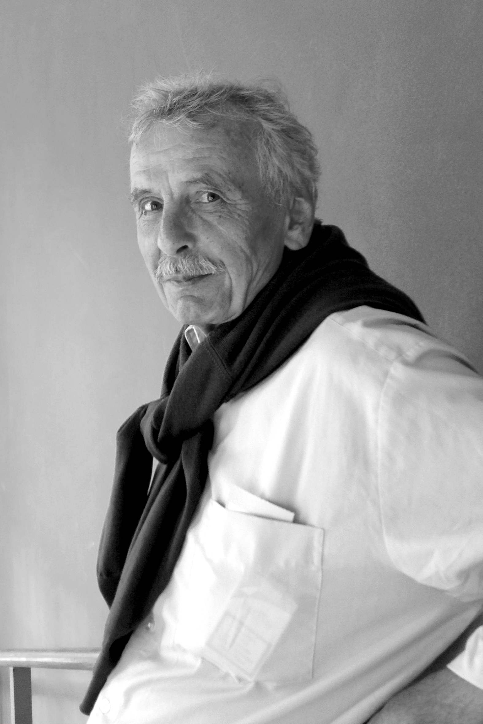 Portrait of Professor Werner Fuchs-Heinritz